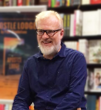 Author Paul Mendelson in Cape Town, December 2017